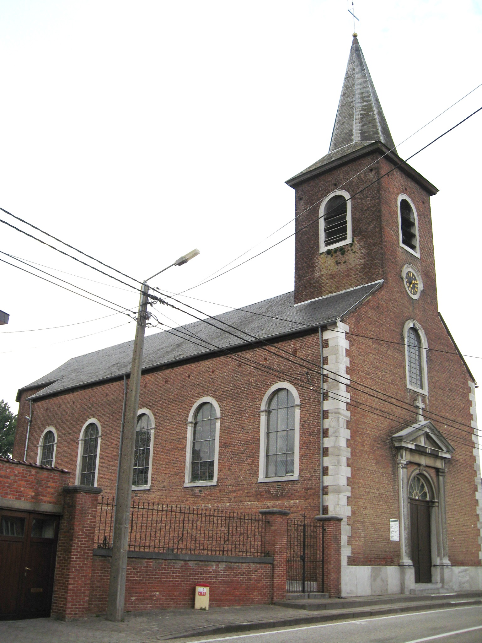 Church of Saint Lambert in Opheers, Heers, Lmburg, Belgium